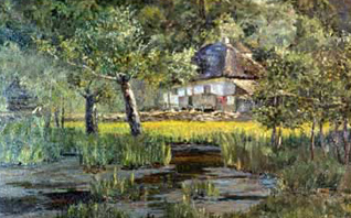 Quiet Day in the Forest